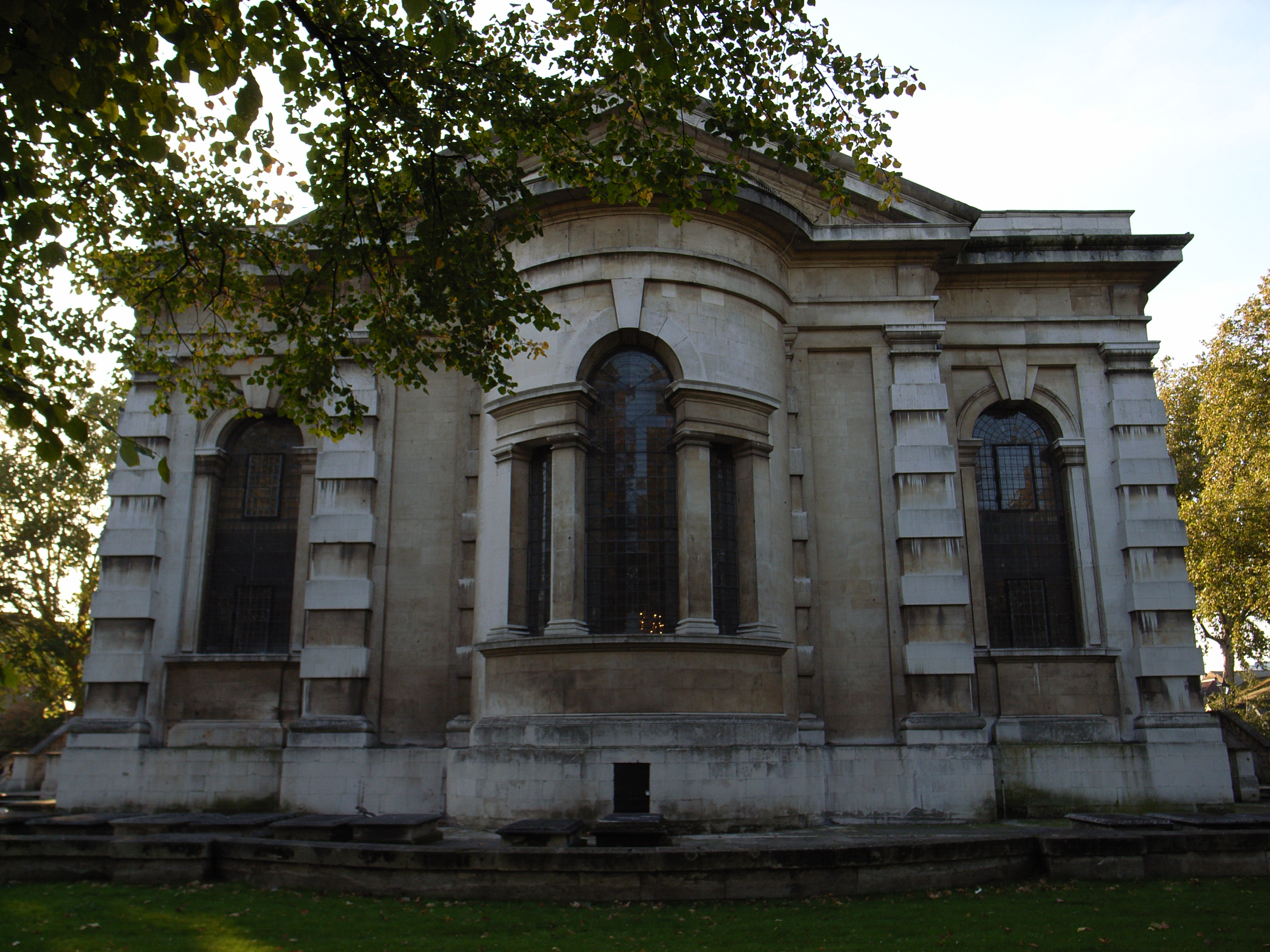 St. Paul's Church in Deptford, London, EnglandSt Paul, Deptford